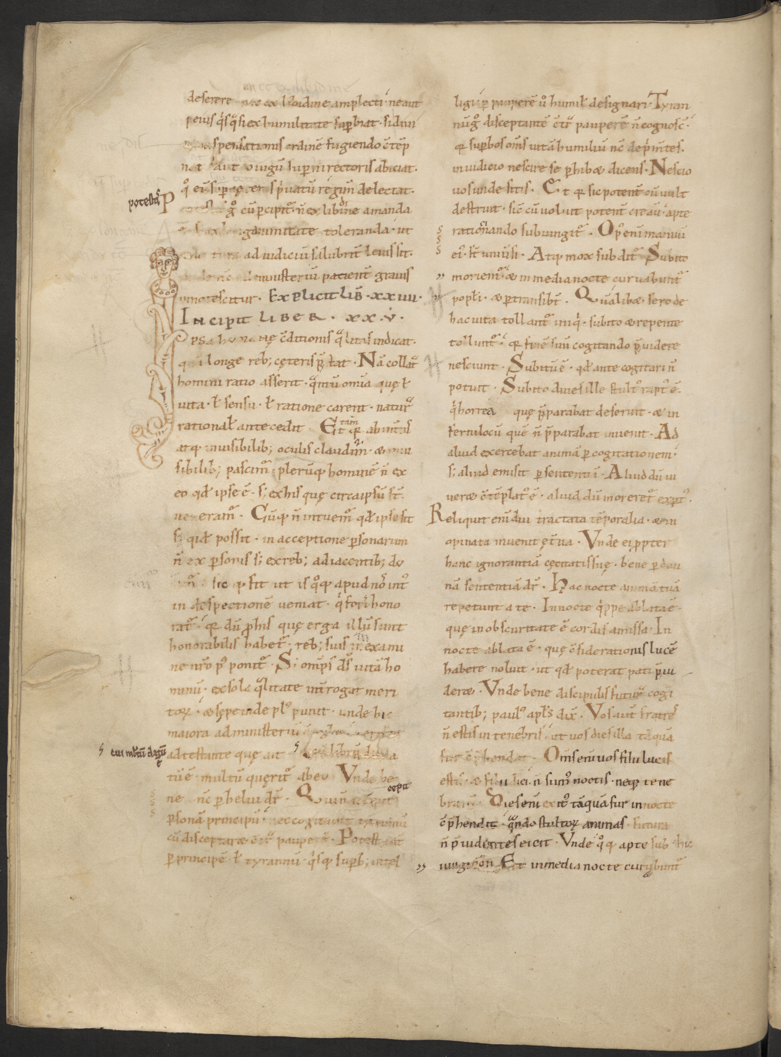 Ms.86, part 3, fol. 27v.